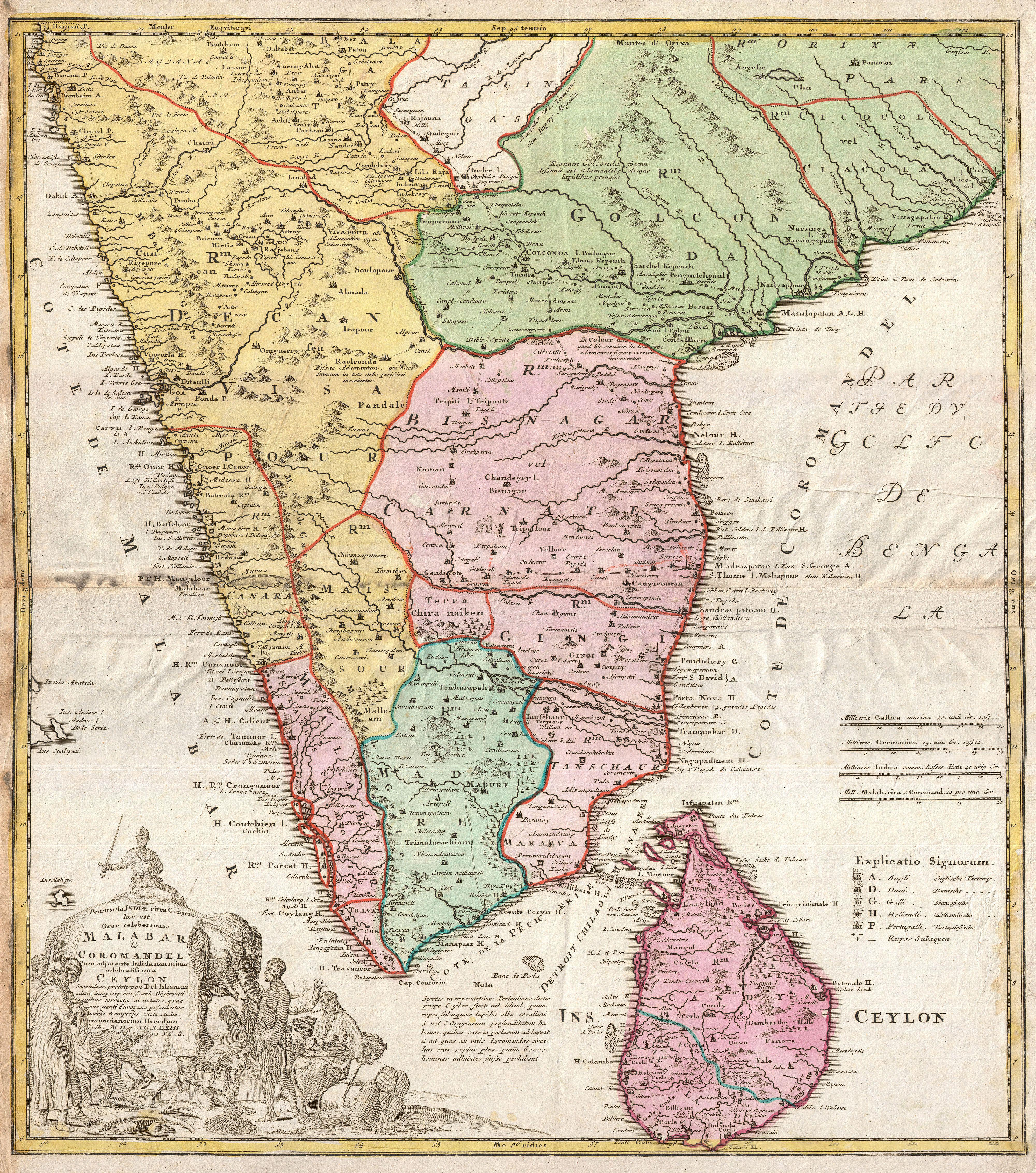 A rare map of India and Ceylon issued in 1733 by the Homann Heirs. Covers the subcontinent roughly from Bombay south to Cape Comorin and includes all of Ceylon (Sri Lanka). Homan offers good detail along the coast naming numerous ports and, where appropriate, appending either an English, French, Danish, Dutch or Portuguese flag to indicate the European power laying claim to that port. The interior is more vague, though many of the major caravan routes are noted, if only speculatively. There are numerous annotations in Latin throughout. Homann also identifies various battle sites associated with the southward progress of the Mughal Empire in 1707. When Homann drew this map, only Madras, Malabar, Ceylon, and the European ports remained independent of Mughal control. A large title cartouche depicting Indian traders and an elephant appears in the lower left quadrant.